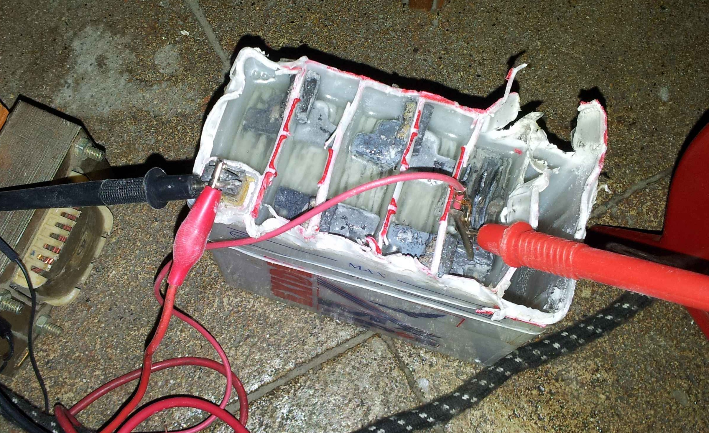 An opened 12v 5ah two wheeler's self starter lead acid battery. Measuring Voltage of 4 cells. There are white color separators placed between electrodes of opposite polarity, permeable to ionic flow but preventing electric contact of the electrodes.